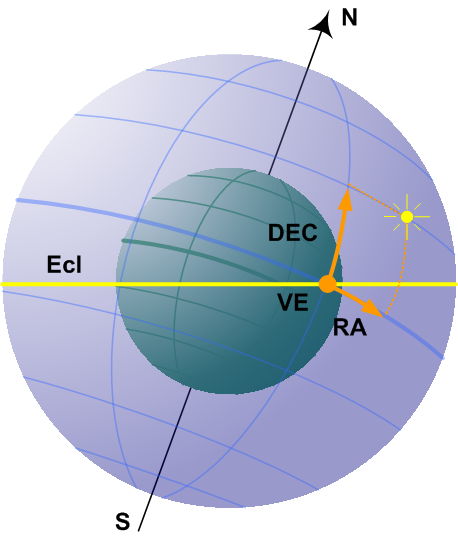 Equatorial coordinates Declination and Right Ascension